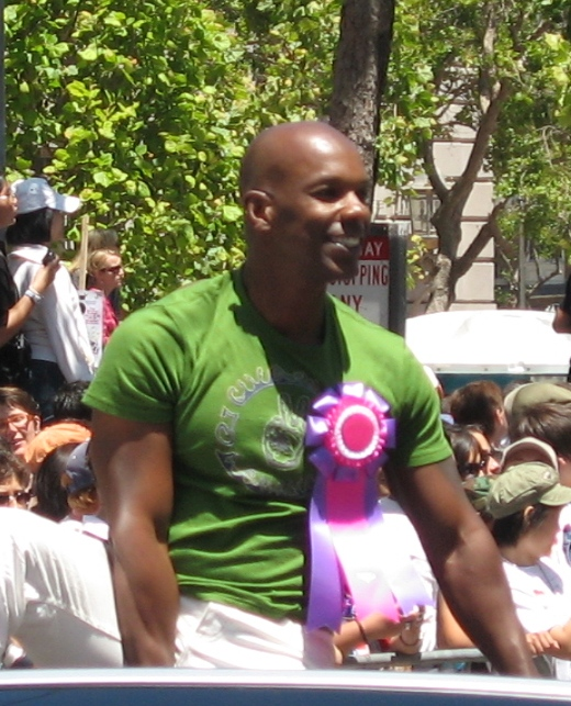 Doug Spearman, American actor, at the 2007 San Francisco Pride Parade